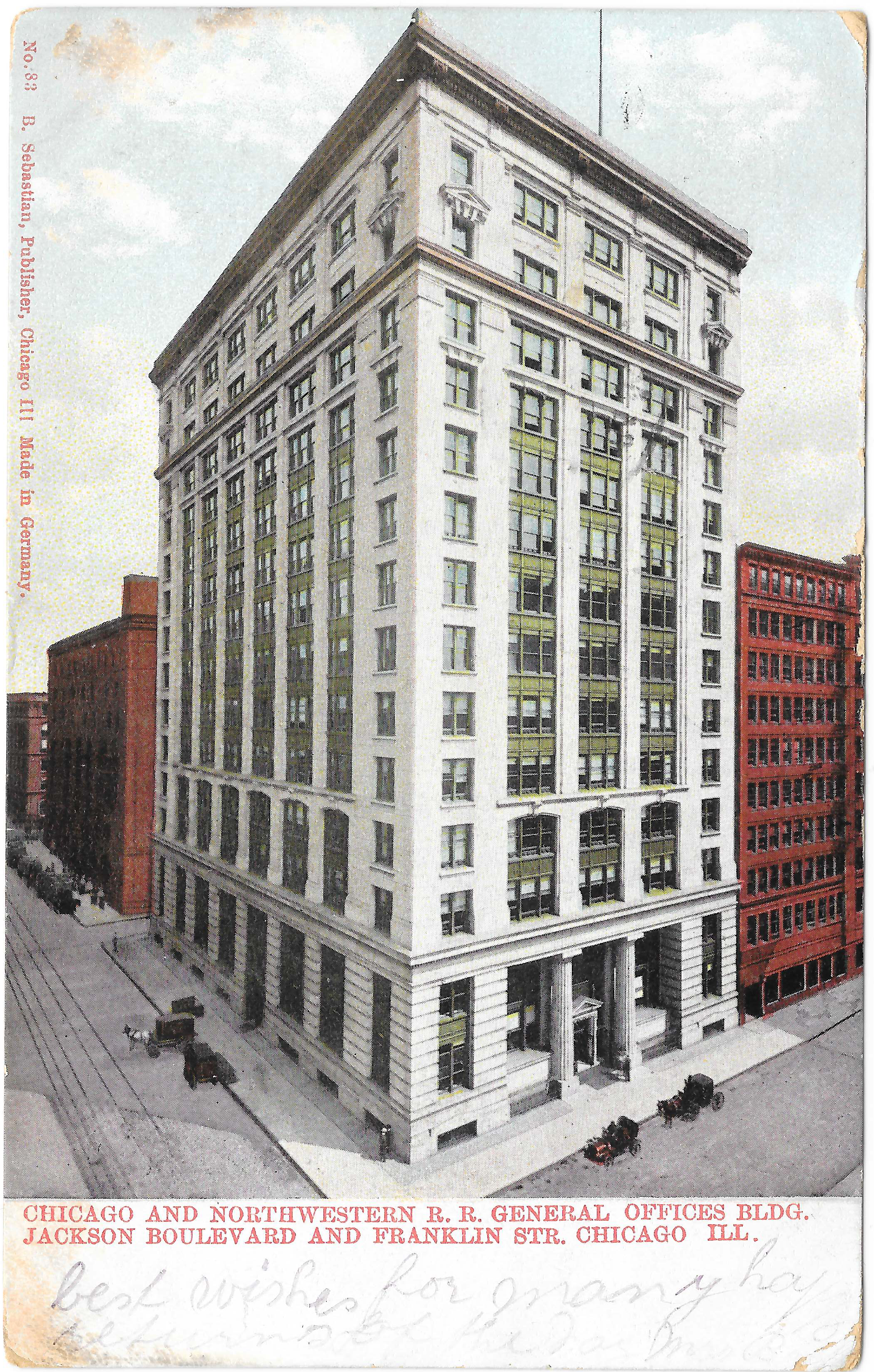 Postcard showing the offices of Chicago and North Western Transportation Company at Jackson Boulevard and Franklin Street in Chicago, IL